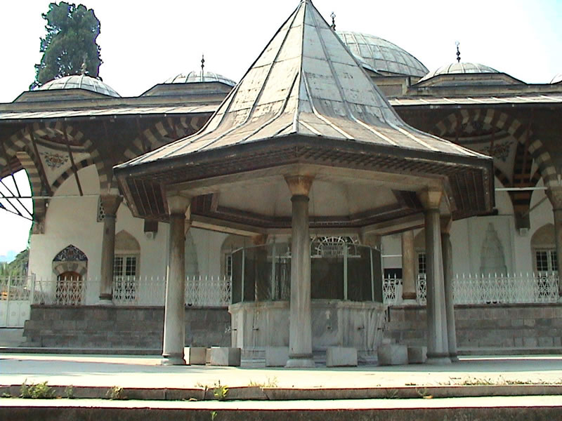 Wudu ("ablution") area of Gülbahar Hatun Mosque.